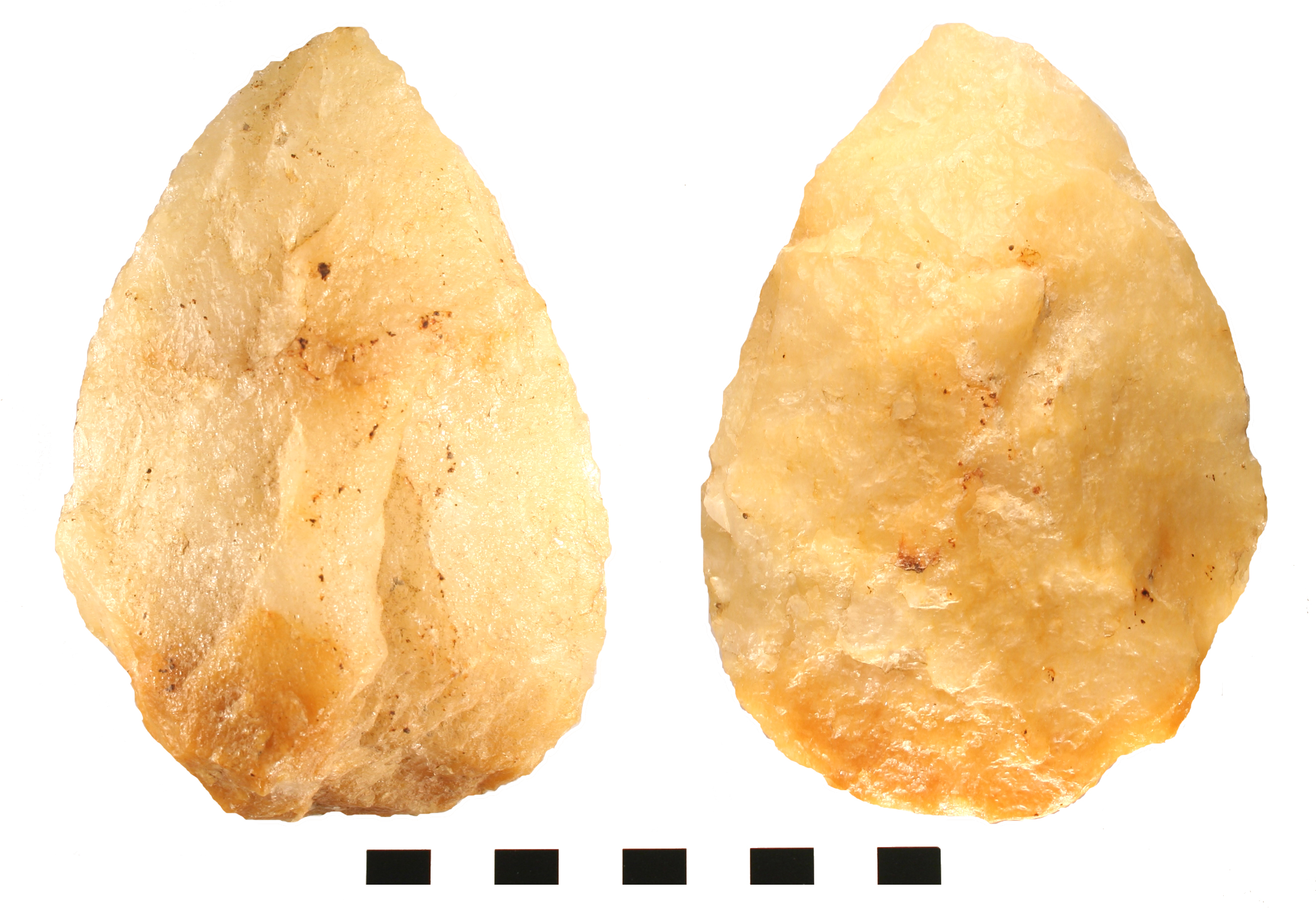 Hand axe of Wörleschwang, Markt Zusmarshausen, Bavaria, Germany